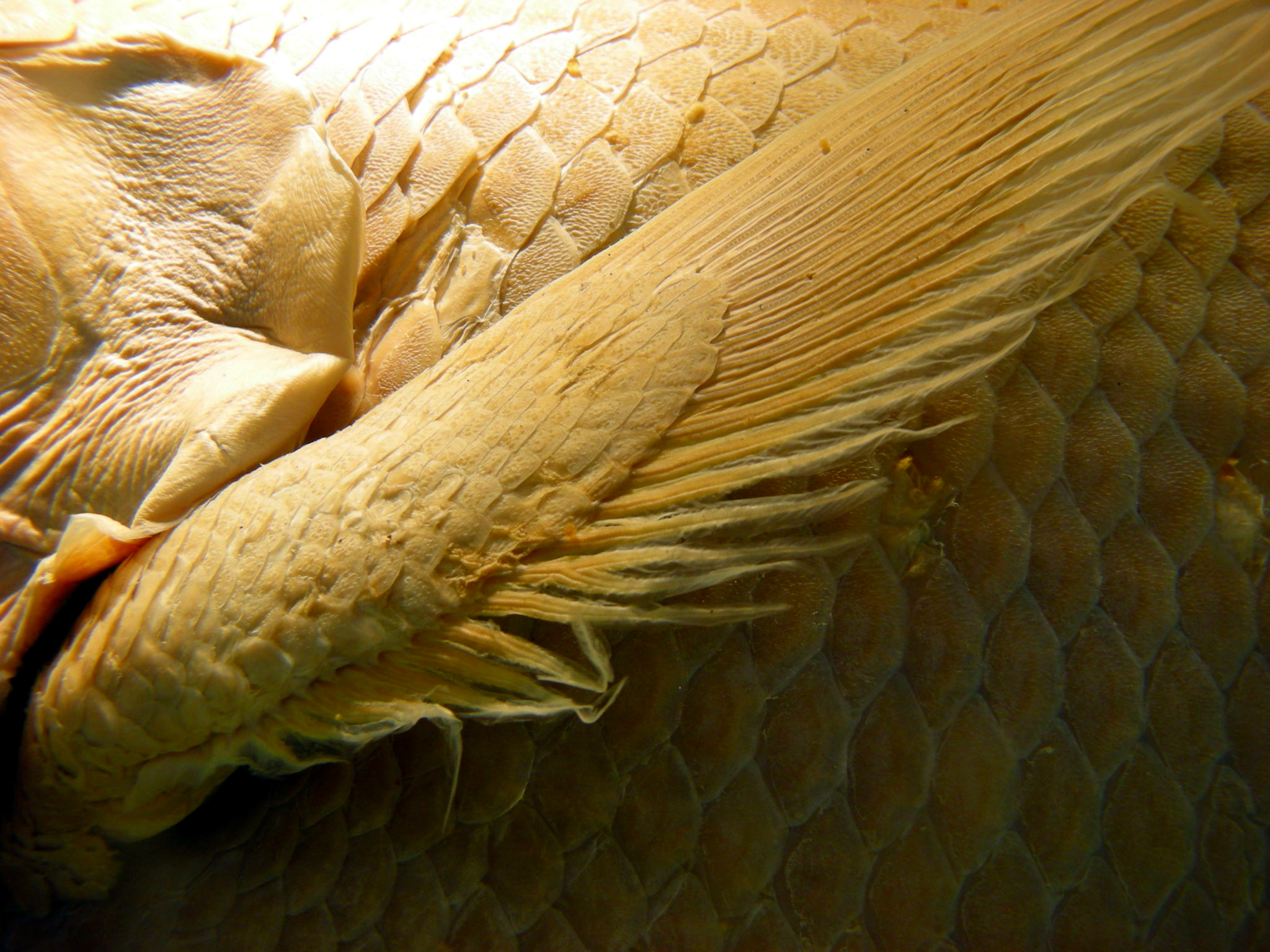 The fin of a coelacanth, Natural History Museum (London)